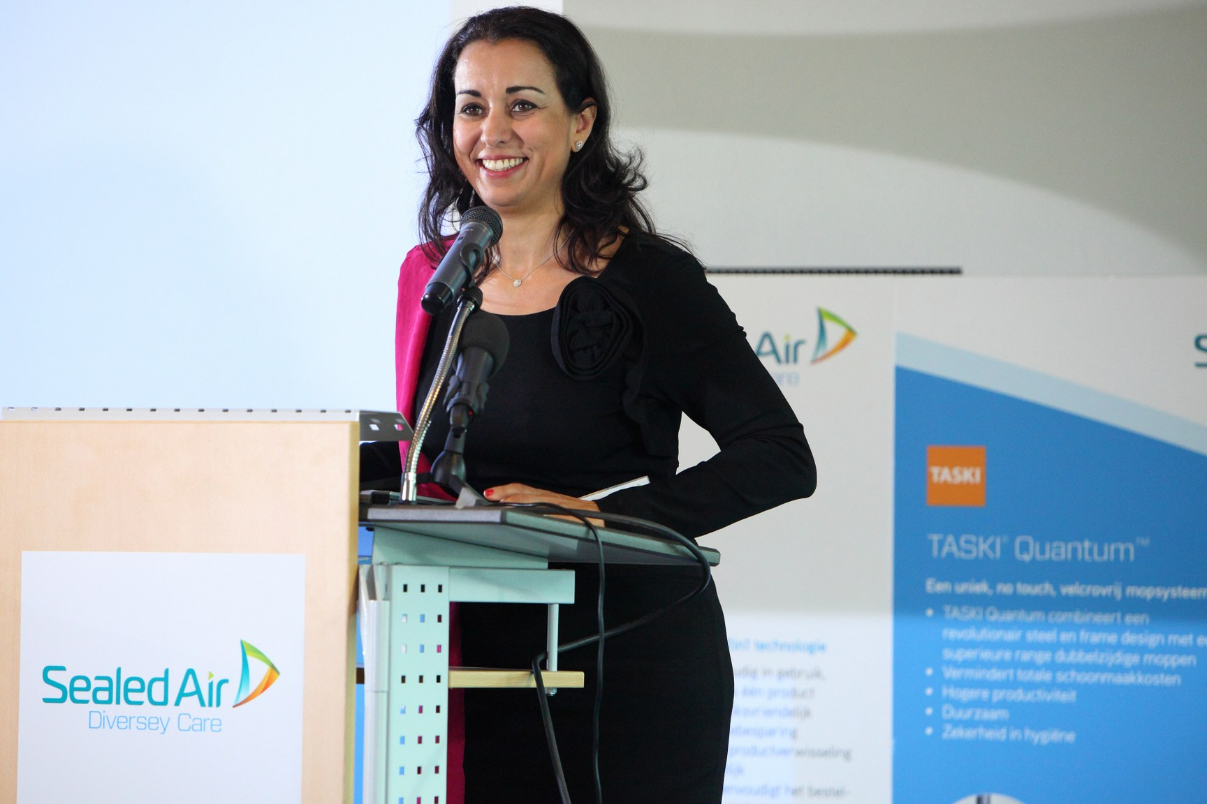 Dr. Ilham Kadri speaks at a Sealed Air event